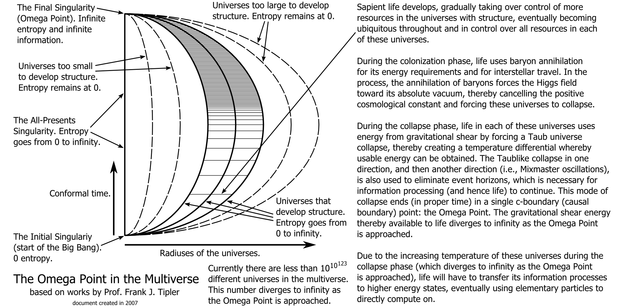 This is a diagram of the multiverse formulation of the Omega Point (although note that the physics of the actual Omega Point aren't dependant on a multiverse conception).